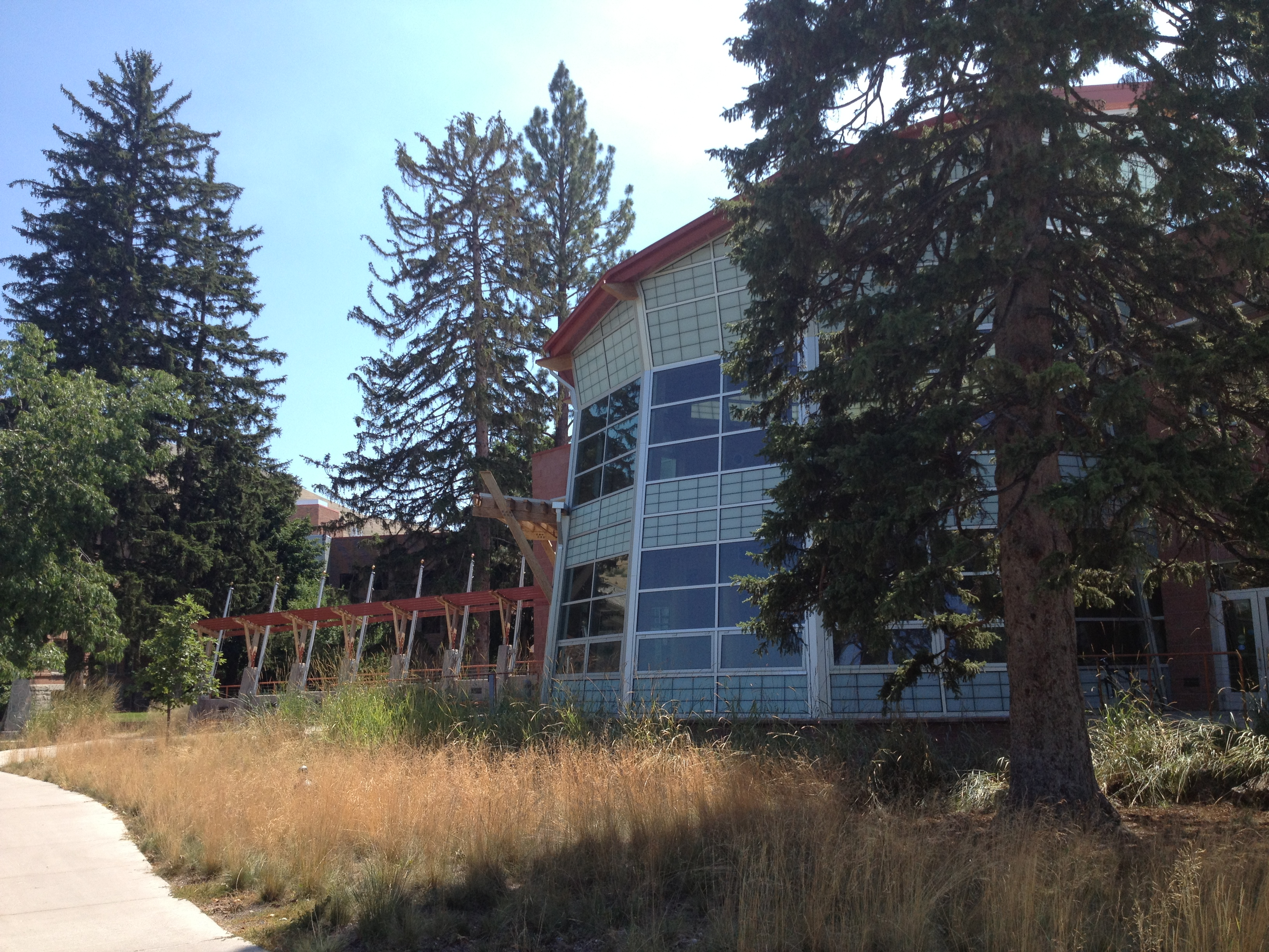 The Payne Family Native American Center on the University of Montana campus in Missoula, Montana, a building which has earned the LEED Platinum Certification. Photographed July 25, 2013.